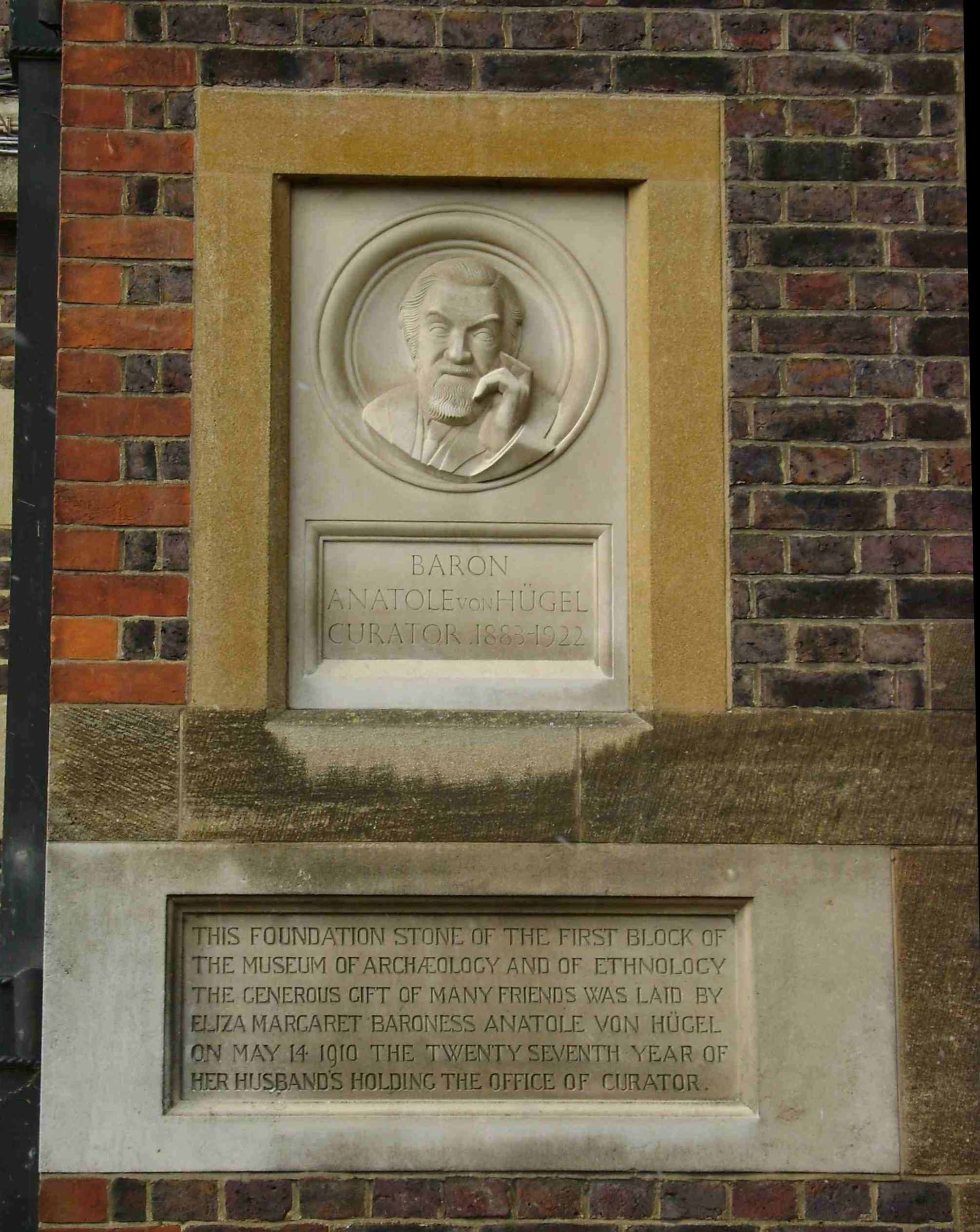 Commemorative plaque